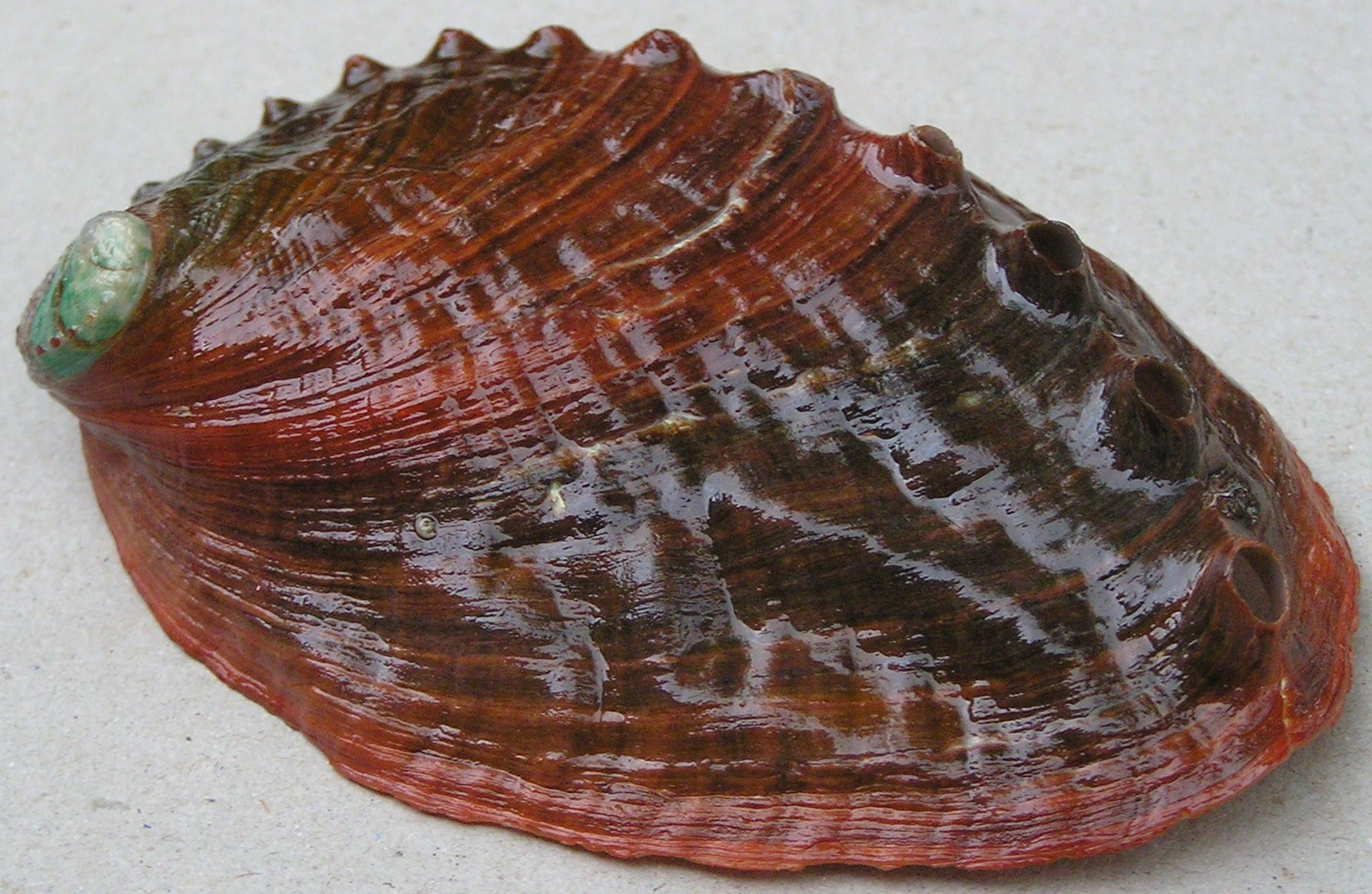 Haliotis kamtschatkana Jonas, 1845; family Haliotidae; Alaska